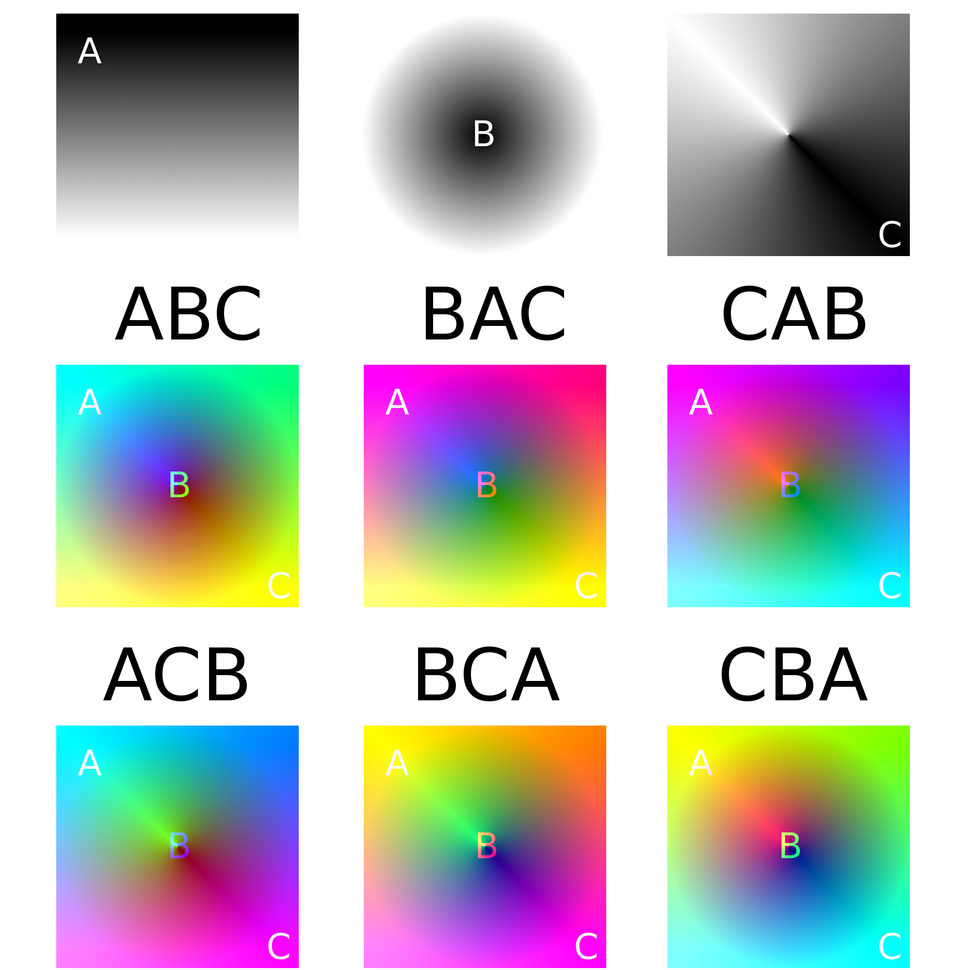 Recomposing three gray scale images A, B and C to RGB. If we assign letters A, B and C to initial 3 gray-scale images, there would be six possible RGB combinations available for each set of 3 gray scale images. If A is assigned to Red, B to Green, and C to Blue, we can show this order as ABC. The six combinations would be: ABC, ACB, BAC, BCA, CAB, CBA. This PNG graphic was created with GIMP.